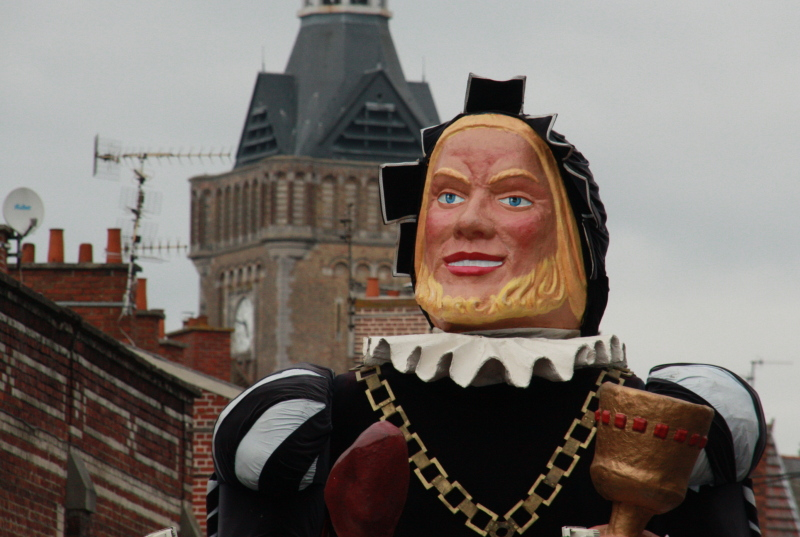 giant Gargantua